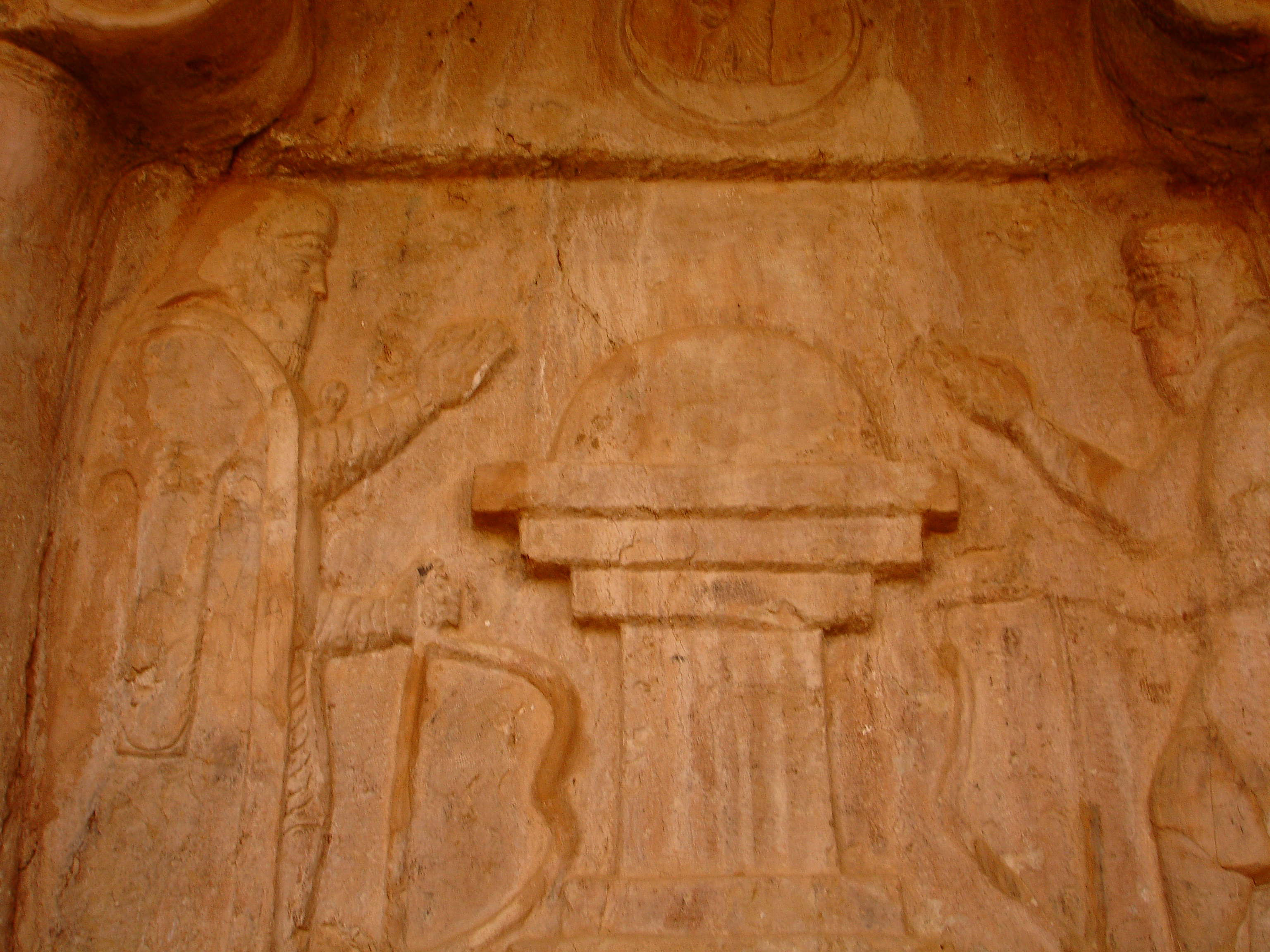 A old tomb of the Zoroastrianism religion in the Sulaymaniyah province. The inside has been robbed and is empty. See metadeta for more info. This Picture was taken in Kurdistan.